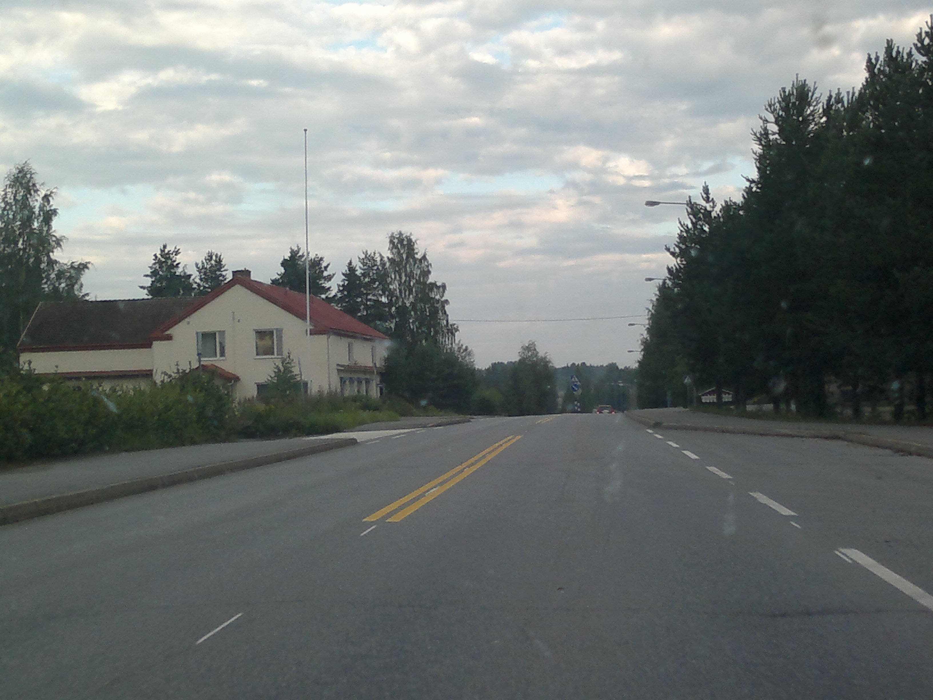 Regional road 697 in Mäyry, Kuortane, Finland.